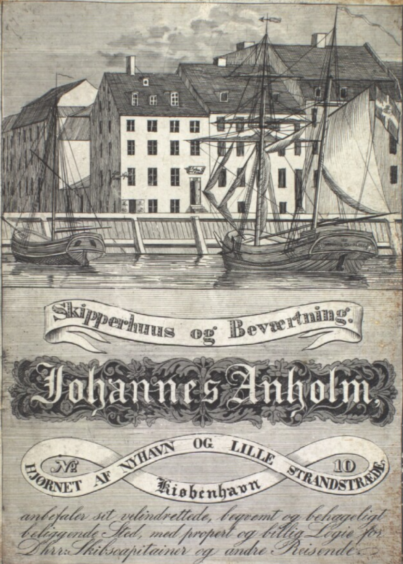 Skipperhuus og Beværtning at Nyhavn 19 in Copenhagen, Denmark